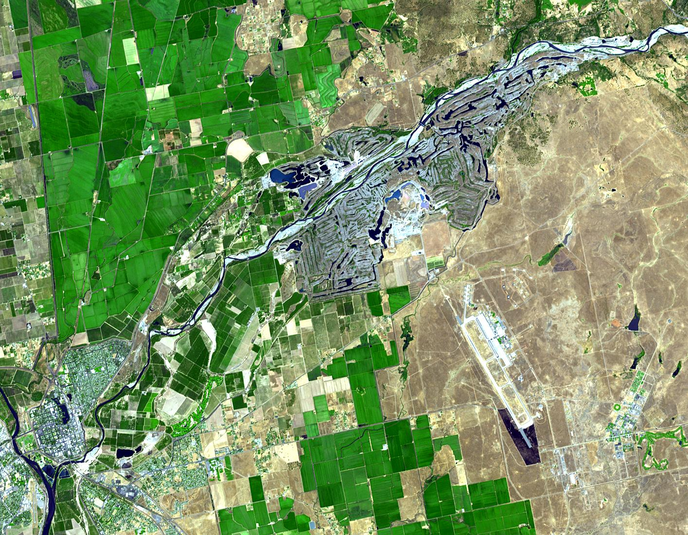 Satellite image of the Yuba River, California. Yuba City is in the lower left of the image. The Yuba Goldfields, an area of waste rock carried down from the Sierra foothills during the California Gold Rush, is visible as a large grayish area along the river.